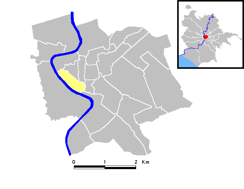 Locator maps of Rome (rioni)